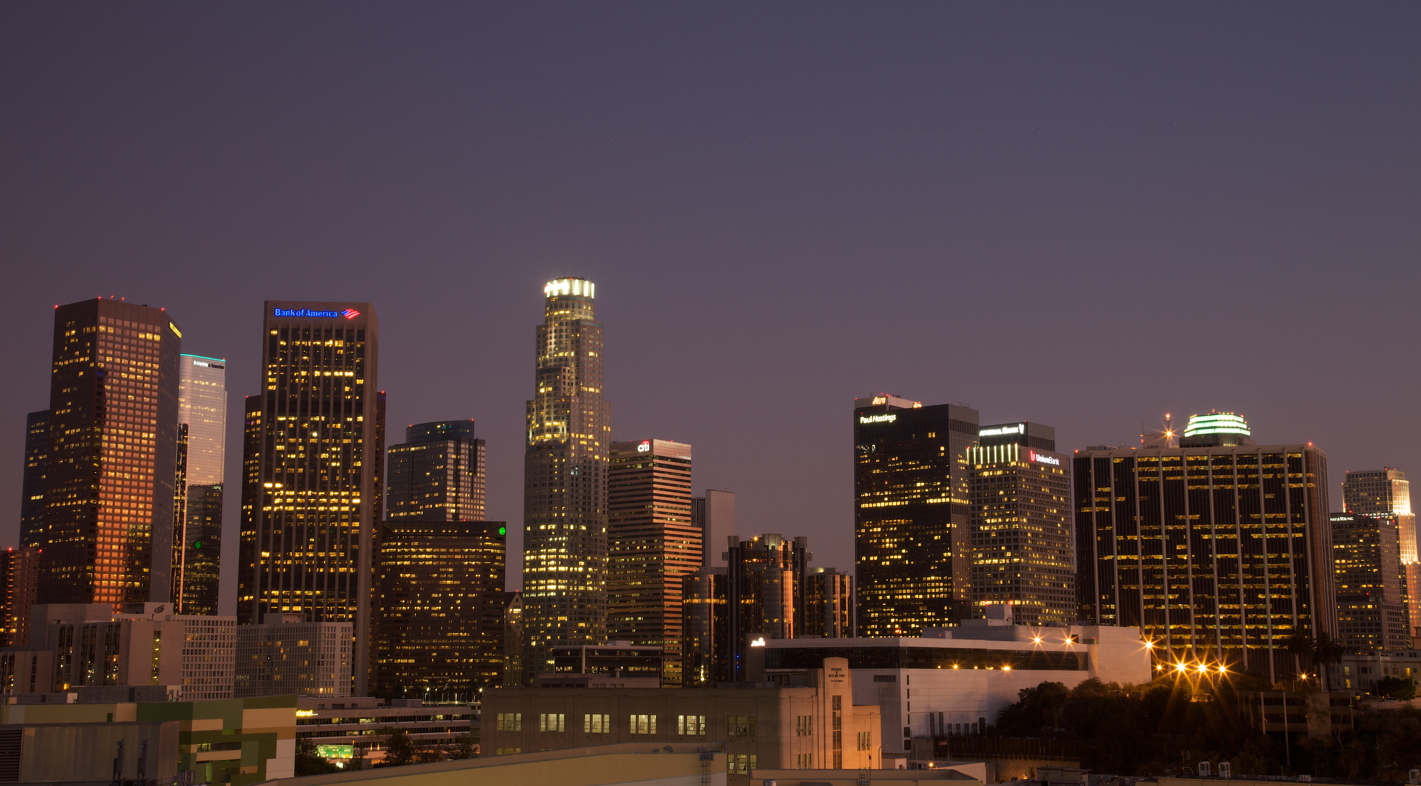 An overview image of Downtown LA skyline, just after sunset.